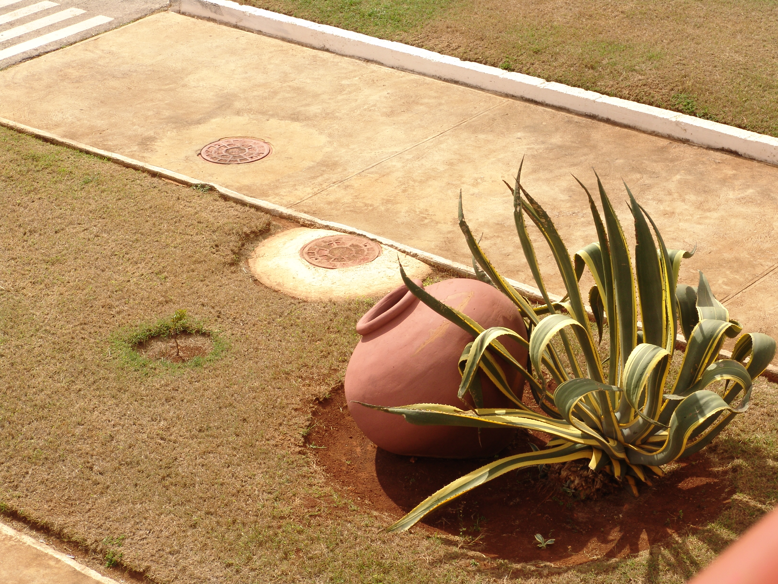 Camagüey mud jars.